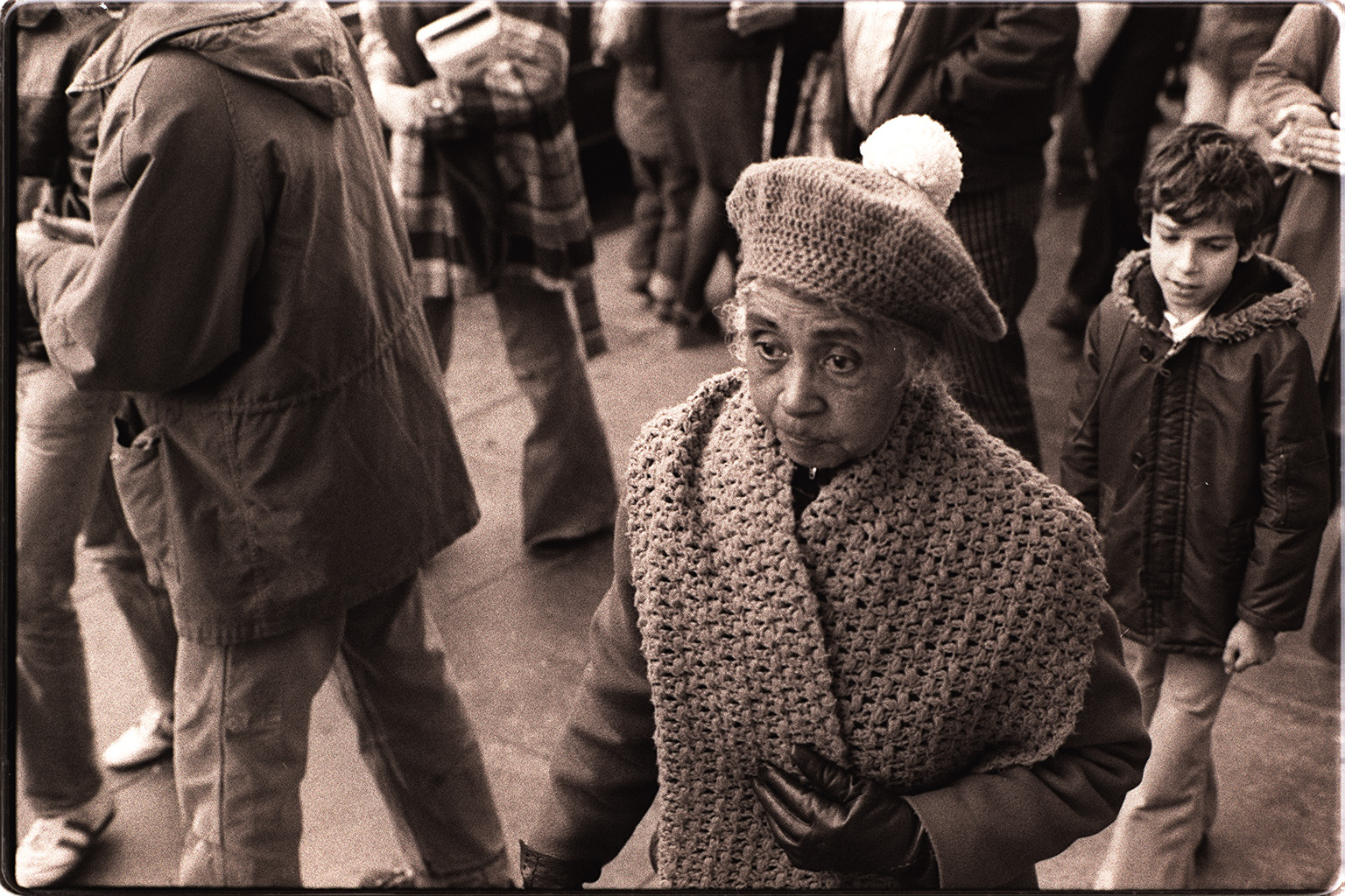 Peoples Temple members Hazel Dashiell, with Mark Fields behind her at the rally to save the International Hotel, 848 Kearny Street, January 1977 in San Francisco. Photo by Nancy Wong